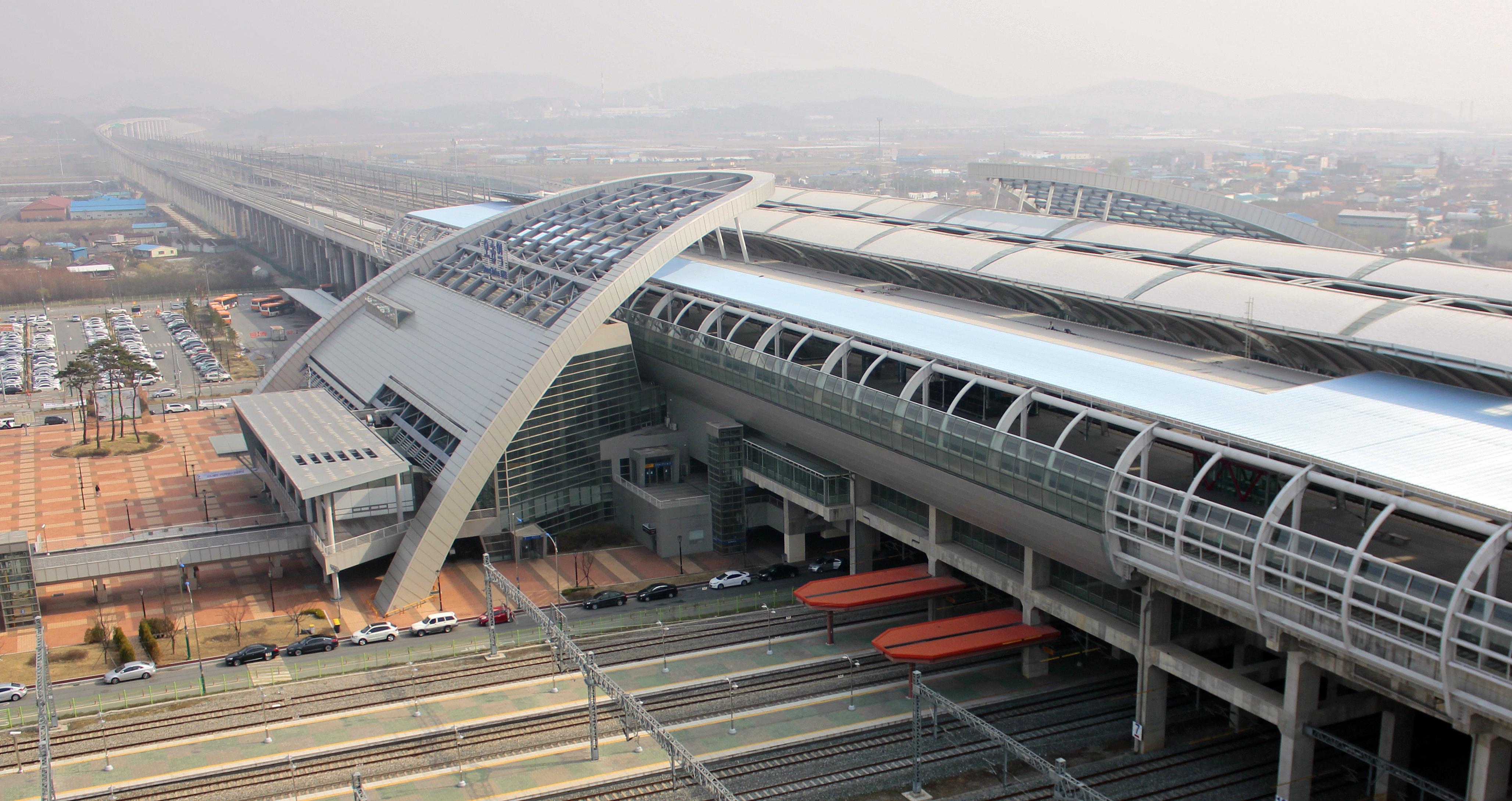 Osong Station